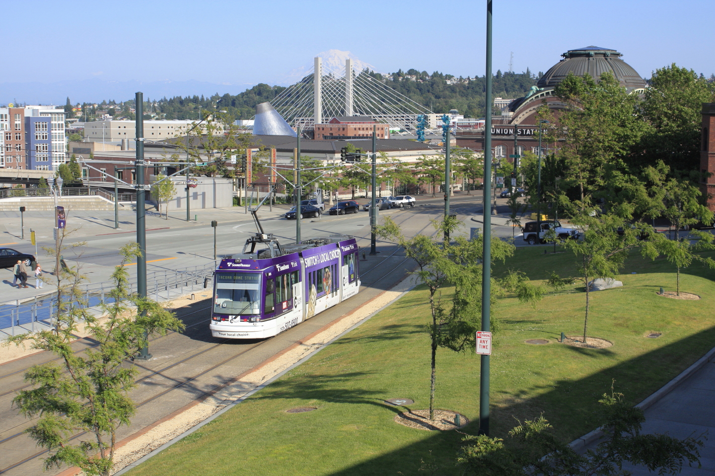 Tacoma Link car 1001 in Click! cable television advertising livery is southbound approaching South 17th Street on 26 June 2009. In the background are the Museum of Glass hotshop cone, the 21st Street cable-stayed Bridge, the summit of Mount Rainier, and Union Station.